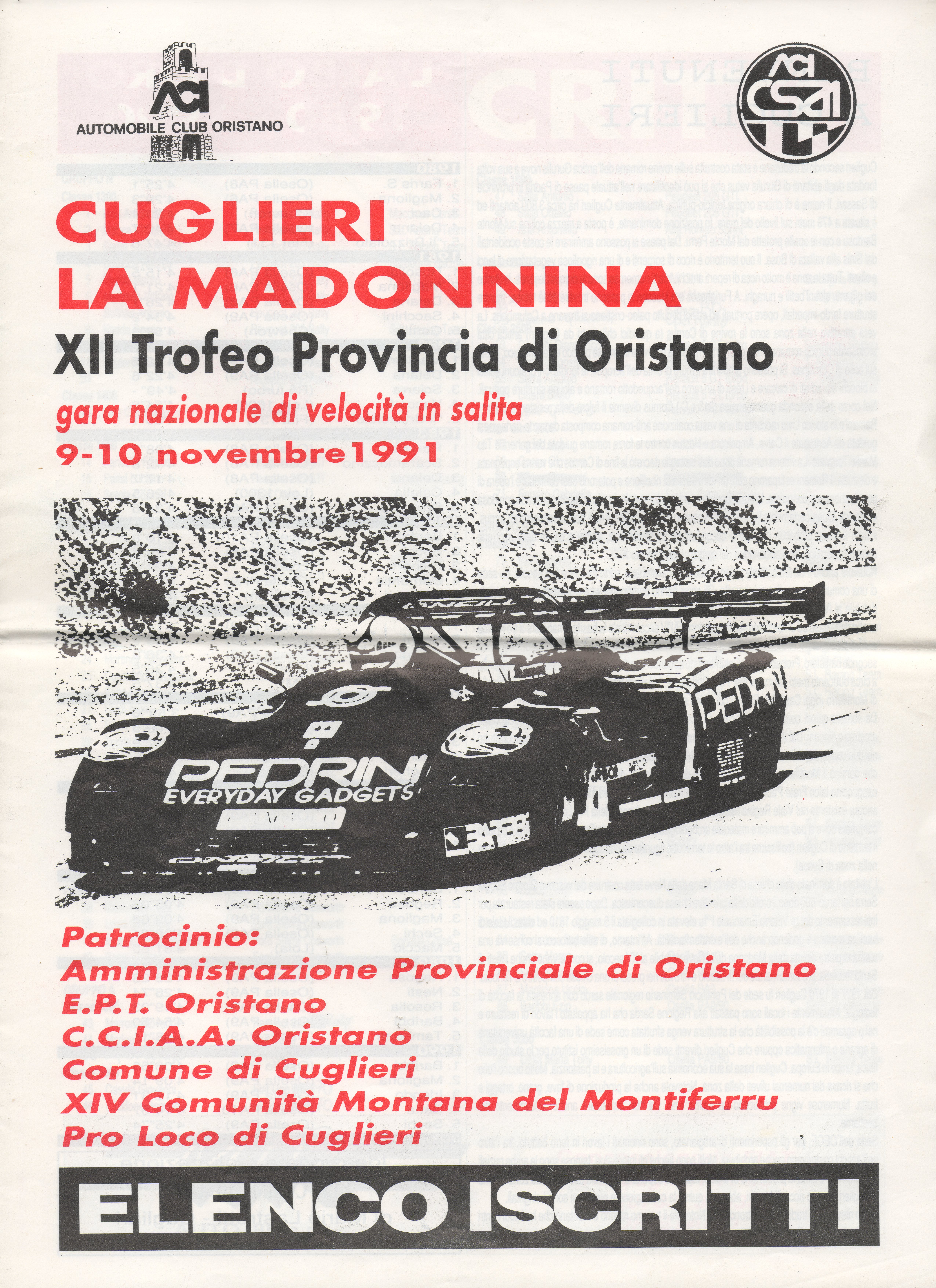 Locandina Cuglieri-La Madonnina 1991